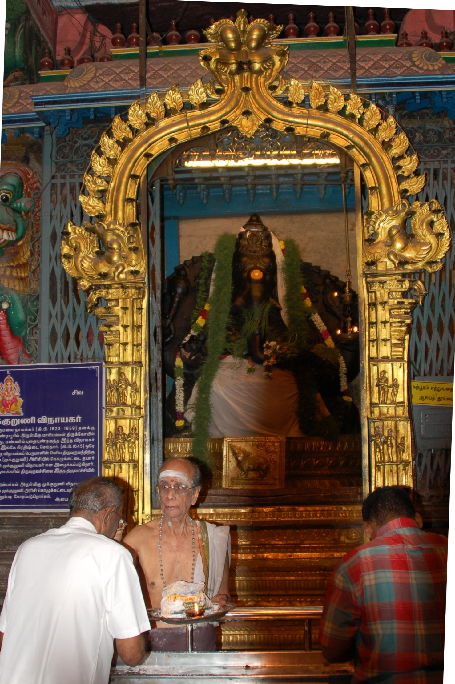 MukkuRuNi PiLLaiyaar or Vinayakar in Madurai Meenakshi Amman Temple, Madurai, Tamil Nadu India. Photographer செல்வா C.R.Selvakumar